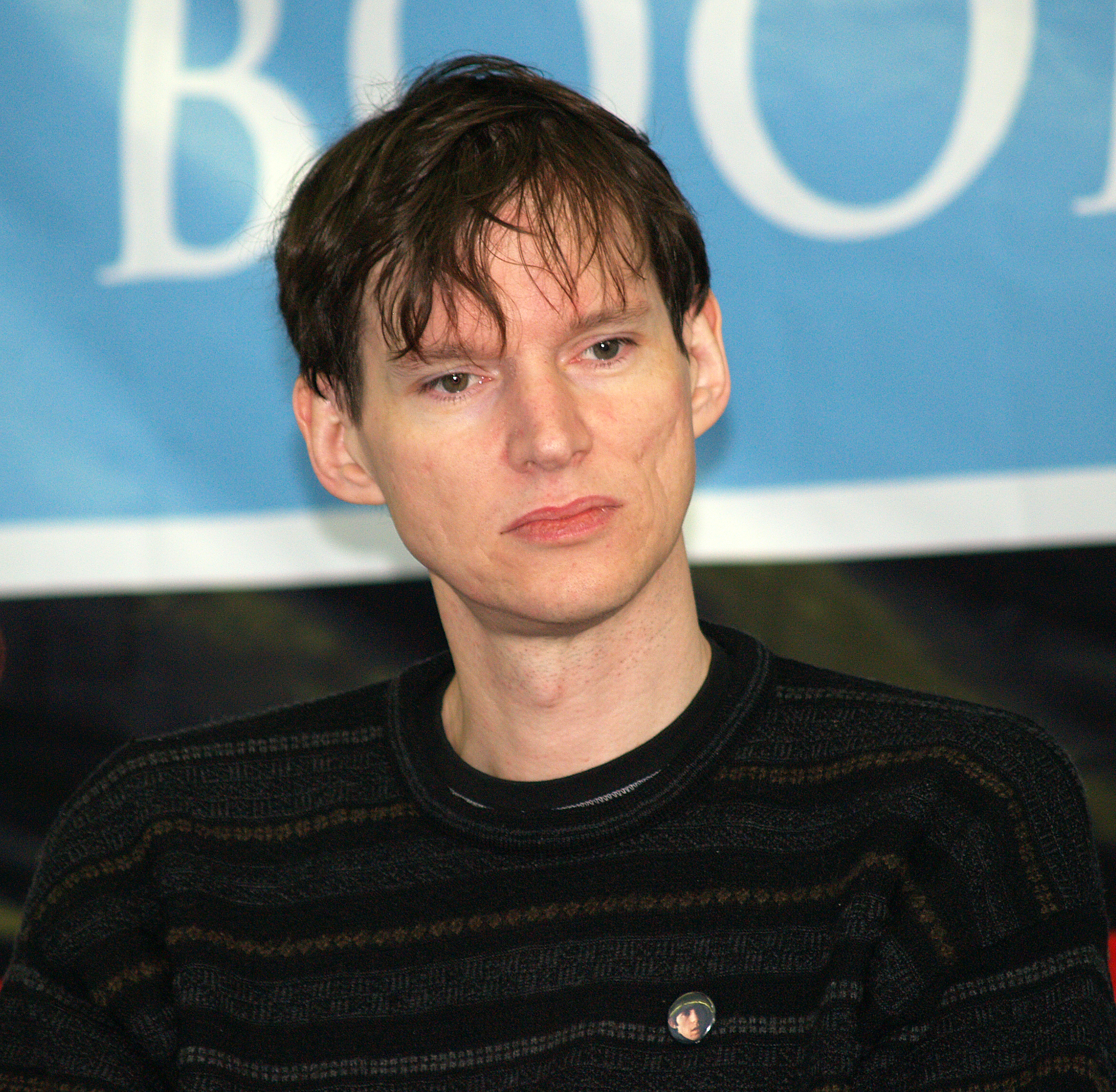 Rob Sheffield at the 2007 Brooklyn Book Festival